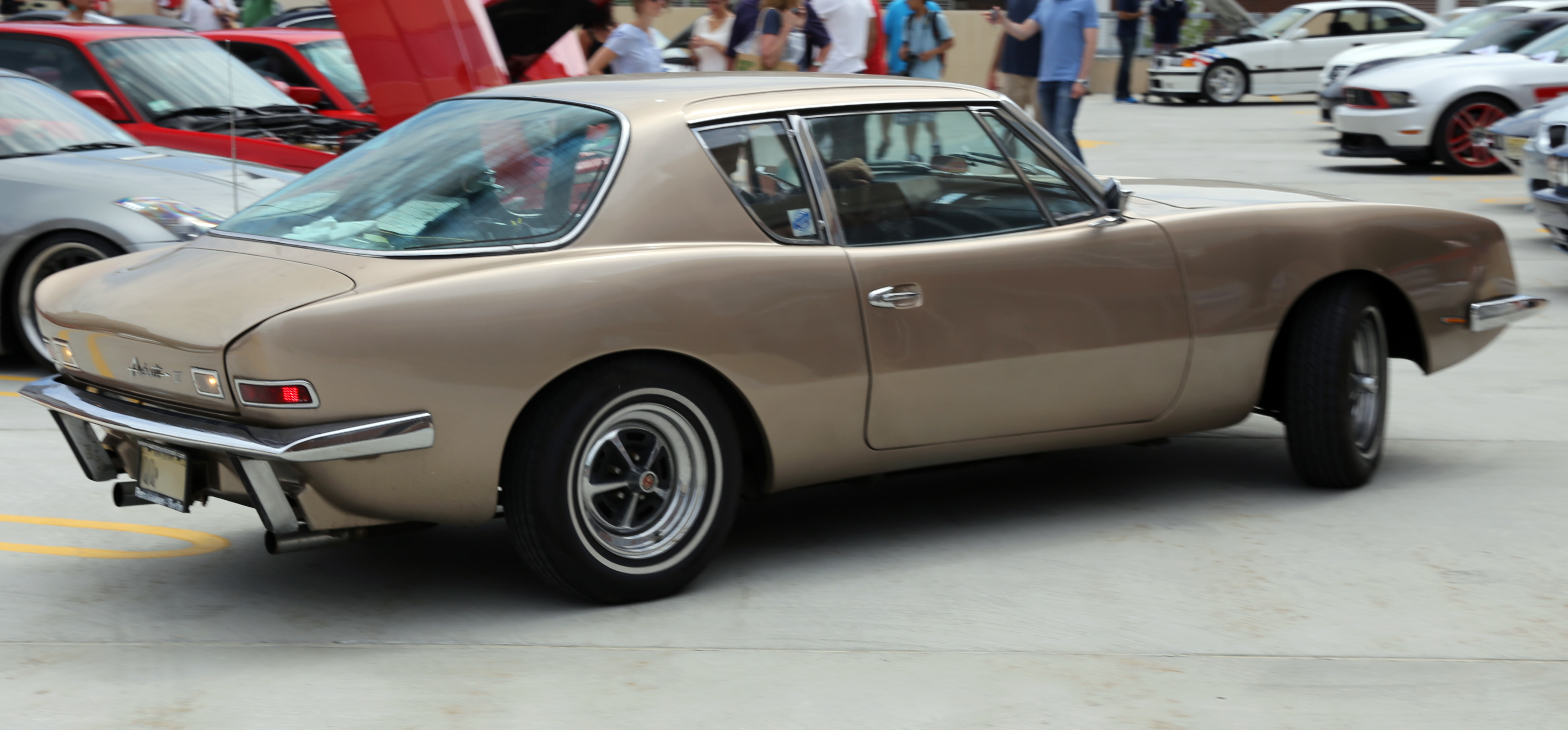 1967 Studebaker Avanti II. 327ci V8 and automatic gearbox, chassis number RQ-A0206